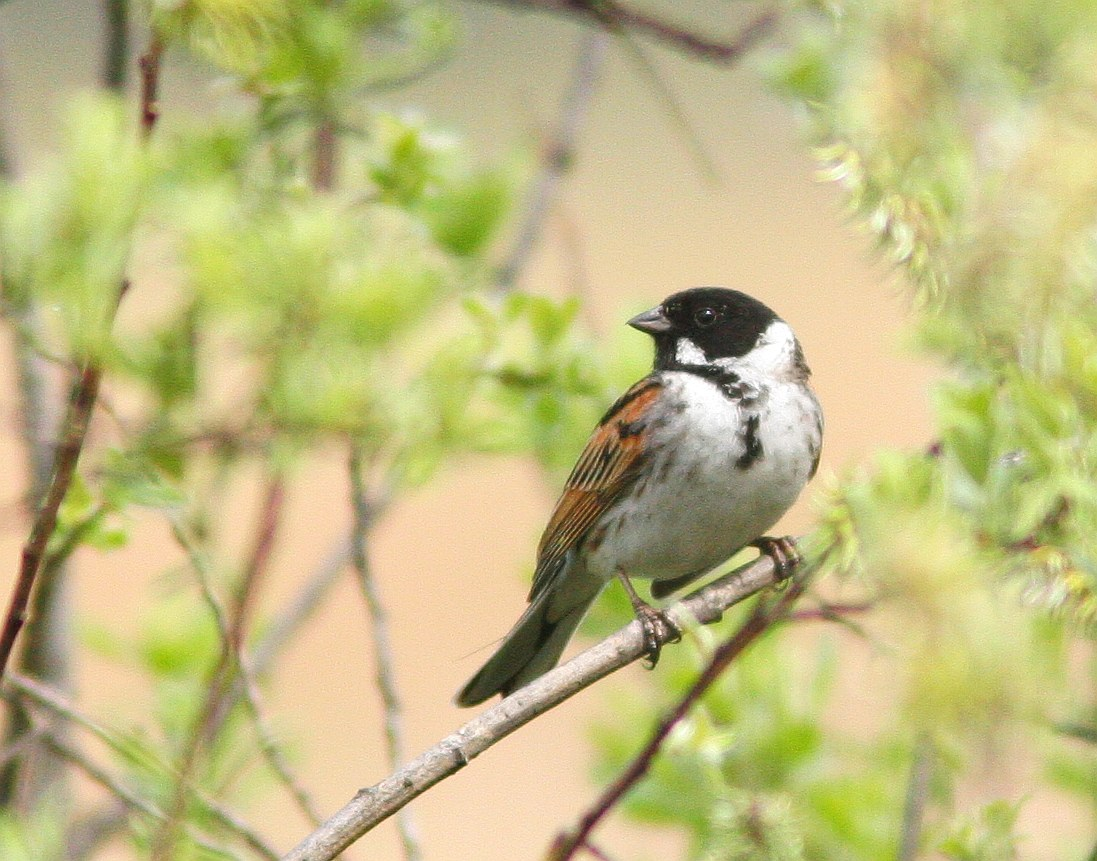 Reed Bunting male, Maliniec, Poland 2007